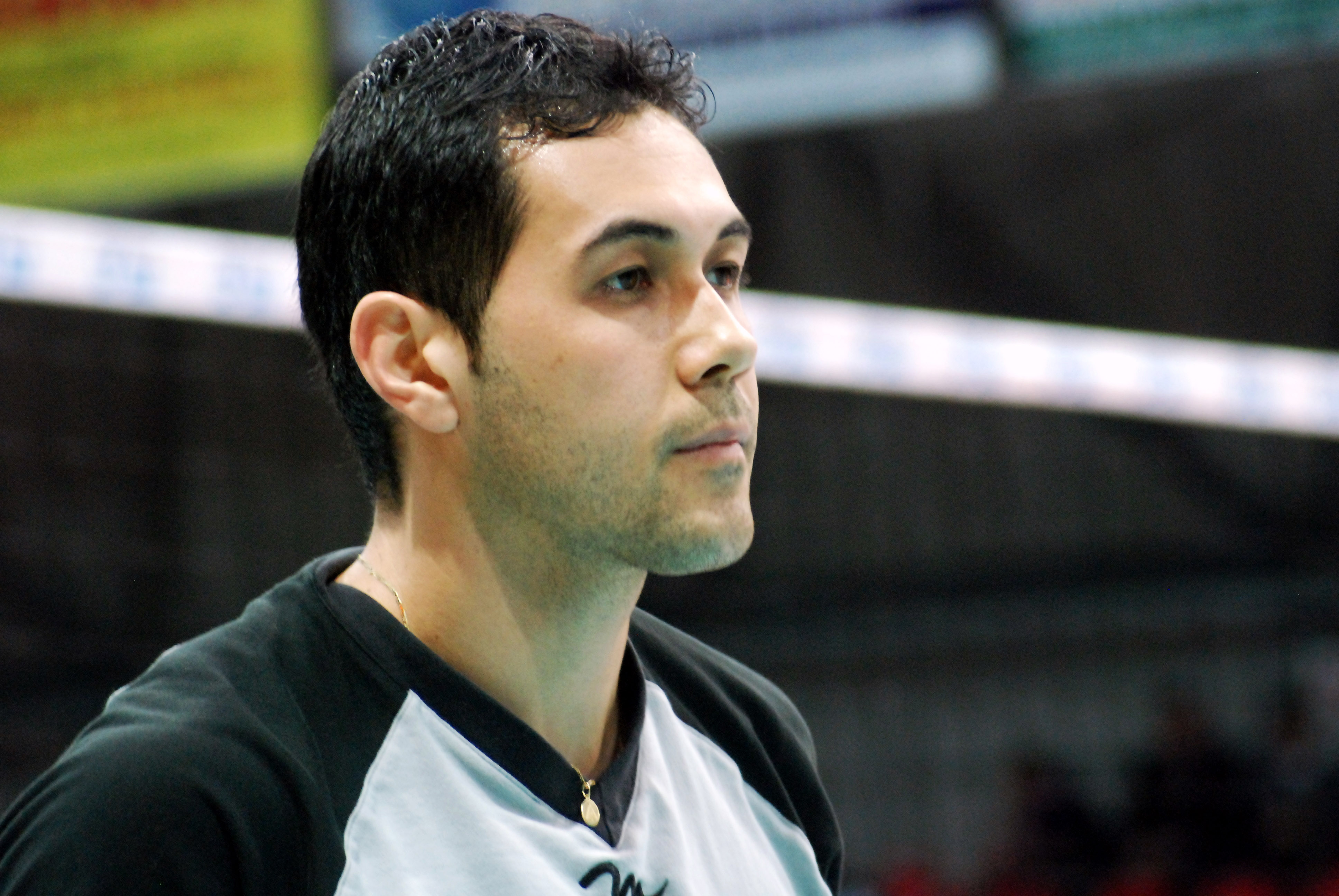 I took this pic during a volleyball match in Piacenza